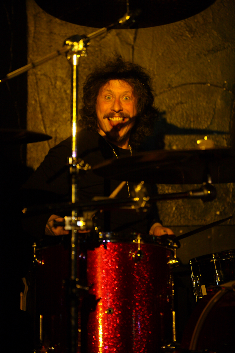 Stuart Cable with Killing for Company at The Citrus Club, Edinburgh